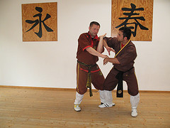 Grand Master Andreas Hofmann and Master Haydar Yilmaz demonstrating chi sao.